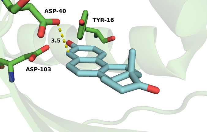 Equilenin bound to the ketosteroid isomerase active site from the vantage of the substrate entrance. (PDB: 1OH0, from pseudomonas putida)